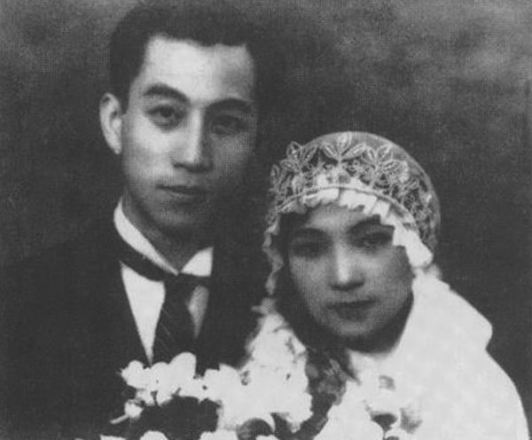 Mu Shiying's Wedding Picture,taken in1934.